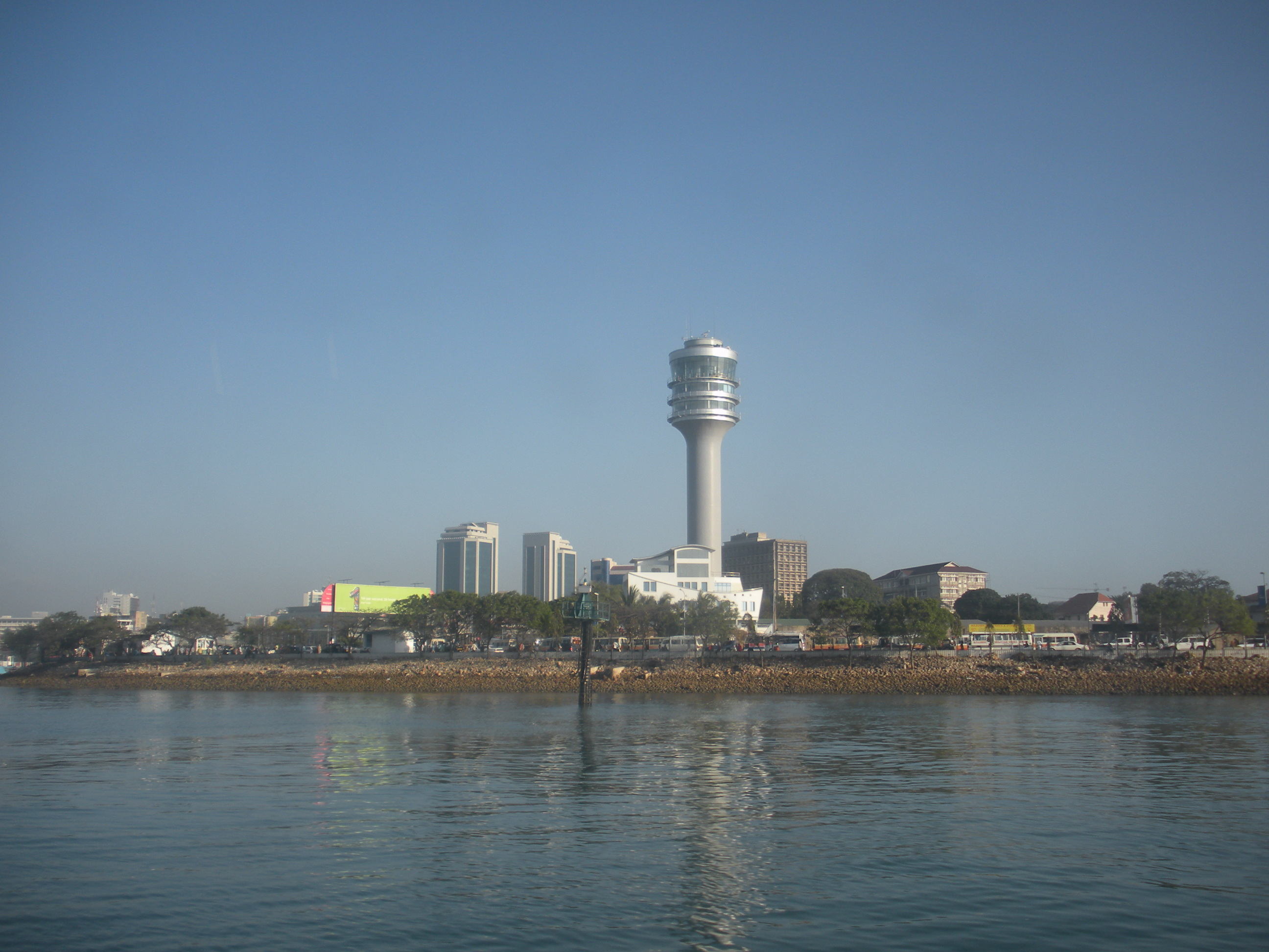 The waterfront of Dar es Salaam. This photo has been taken by Mr. Chen Hualin.